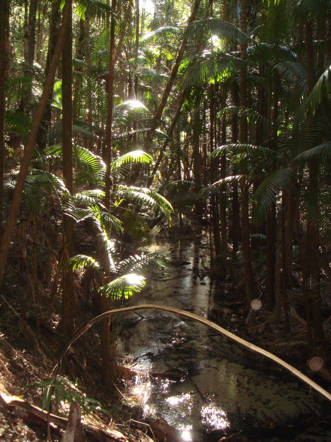 Pile Valley, Fraser Island, Queensland, Australia